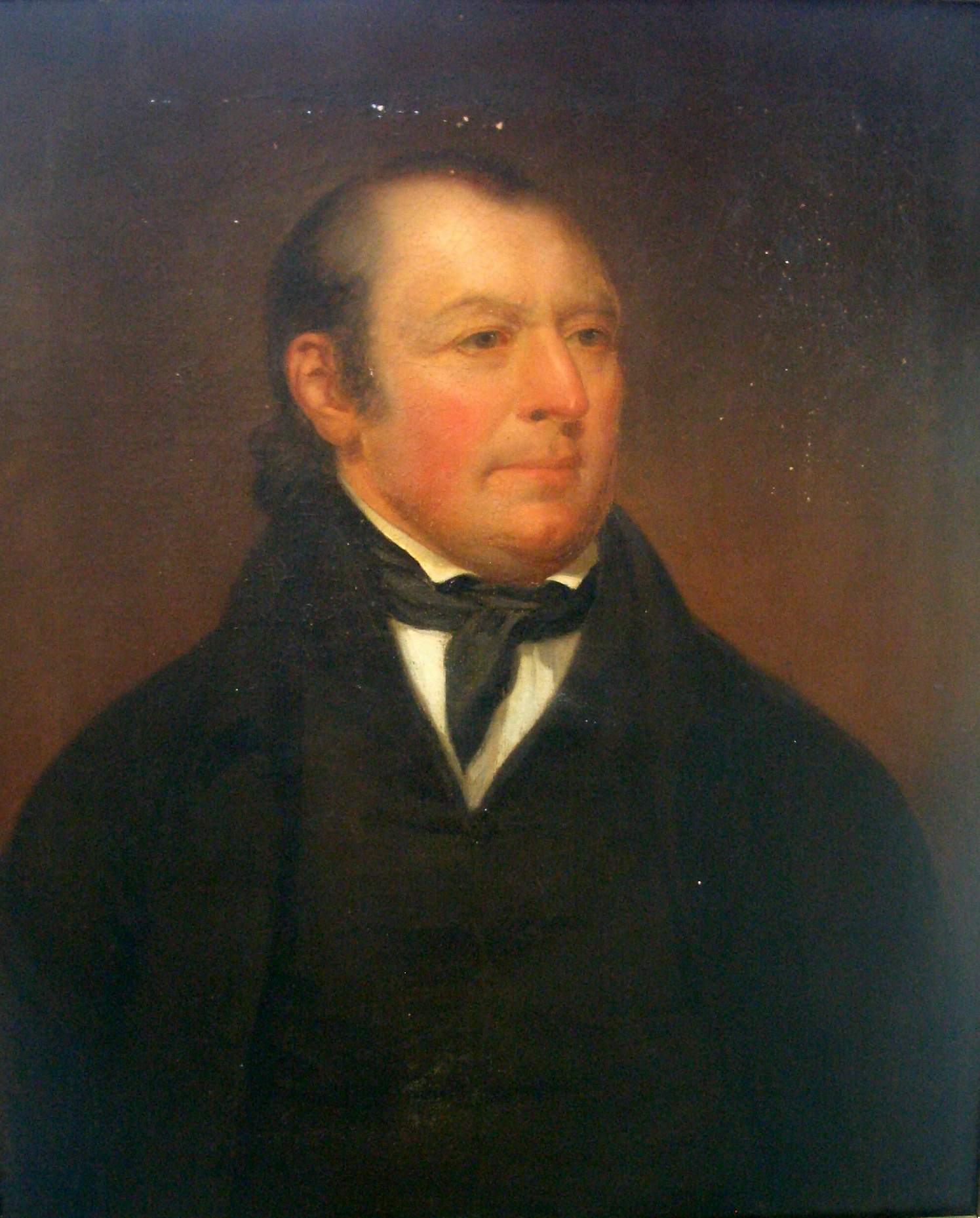 Picture of the father of Jacob Eichholtz, painted by Jacob Eichholtz.